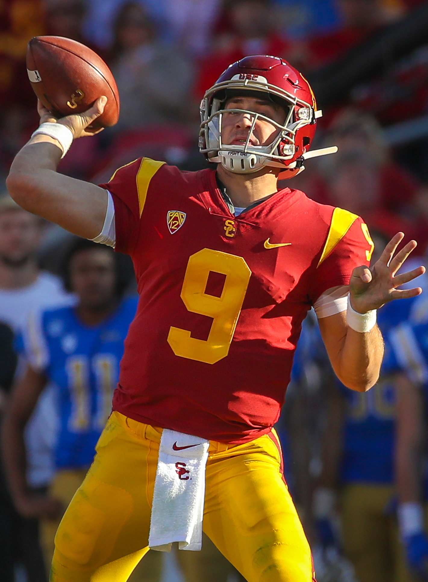 USC Trojans quarterback Kedon Slovis (9) passes to USC Trojans wide receiver Drake London (15) for a 32-yard touchdown pass in the third quarter; UCLA at USC. November 23, 2019, Los Angeles, CA